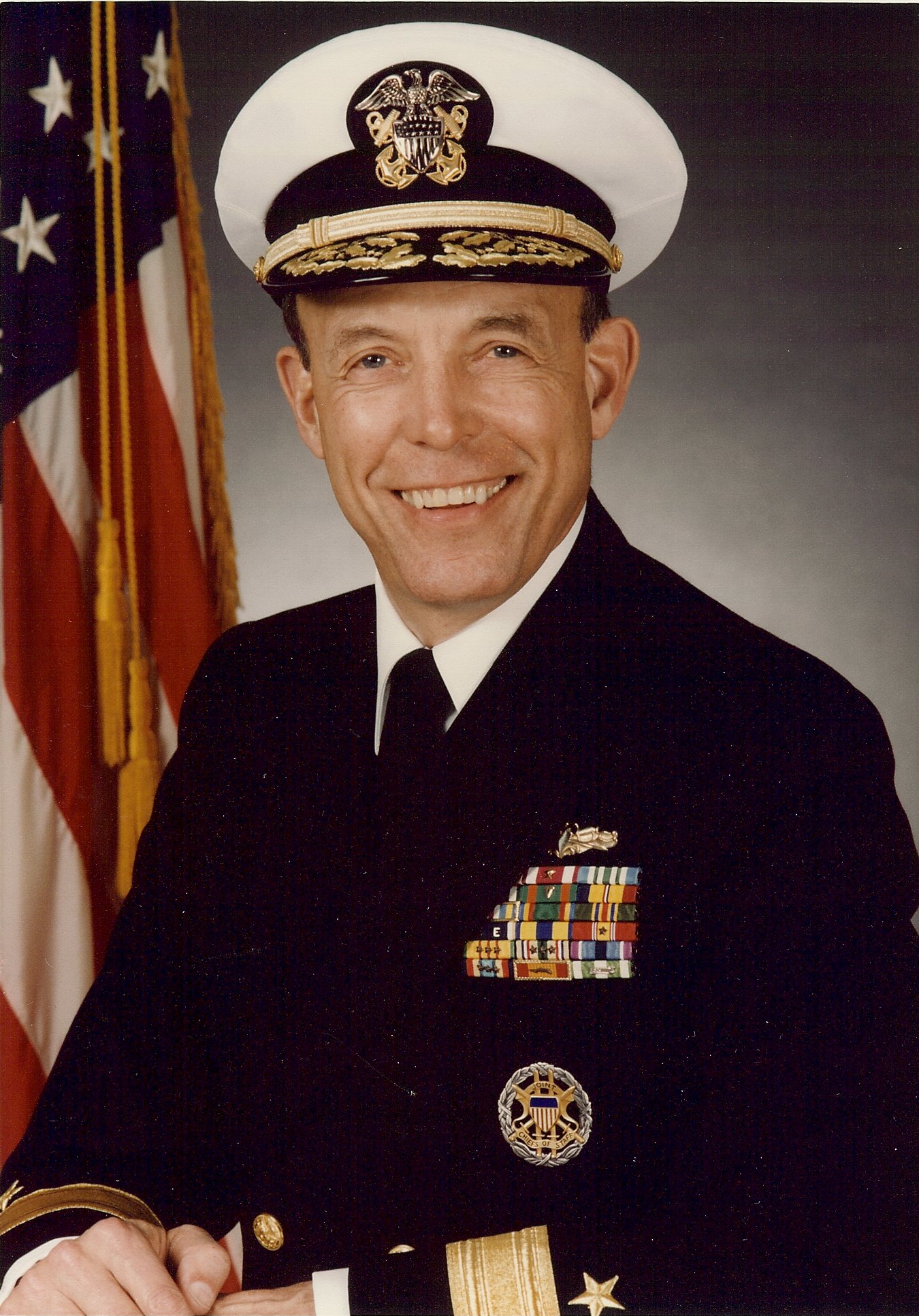 Stephen S. Clarey (b. 9July 1940) is a retired U.S. Navy rear admiral who commanded the U.S. Maritime Prepositioning Force during Operation Desert Shield and the Pacific Fleet Amphibious Task Force during Operation Desert Storm. He retired from the Navy in August 1992 after thirty years of service.